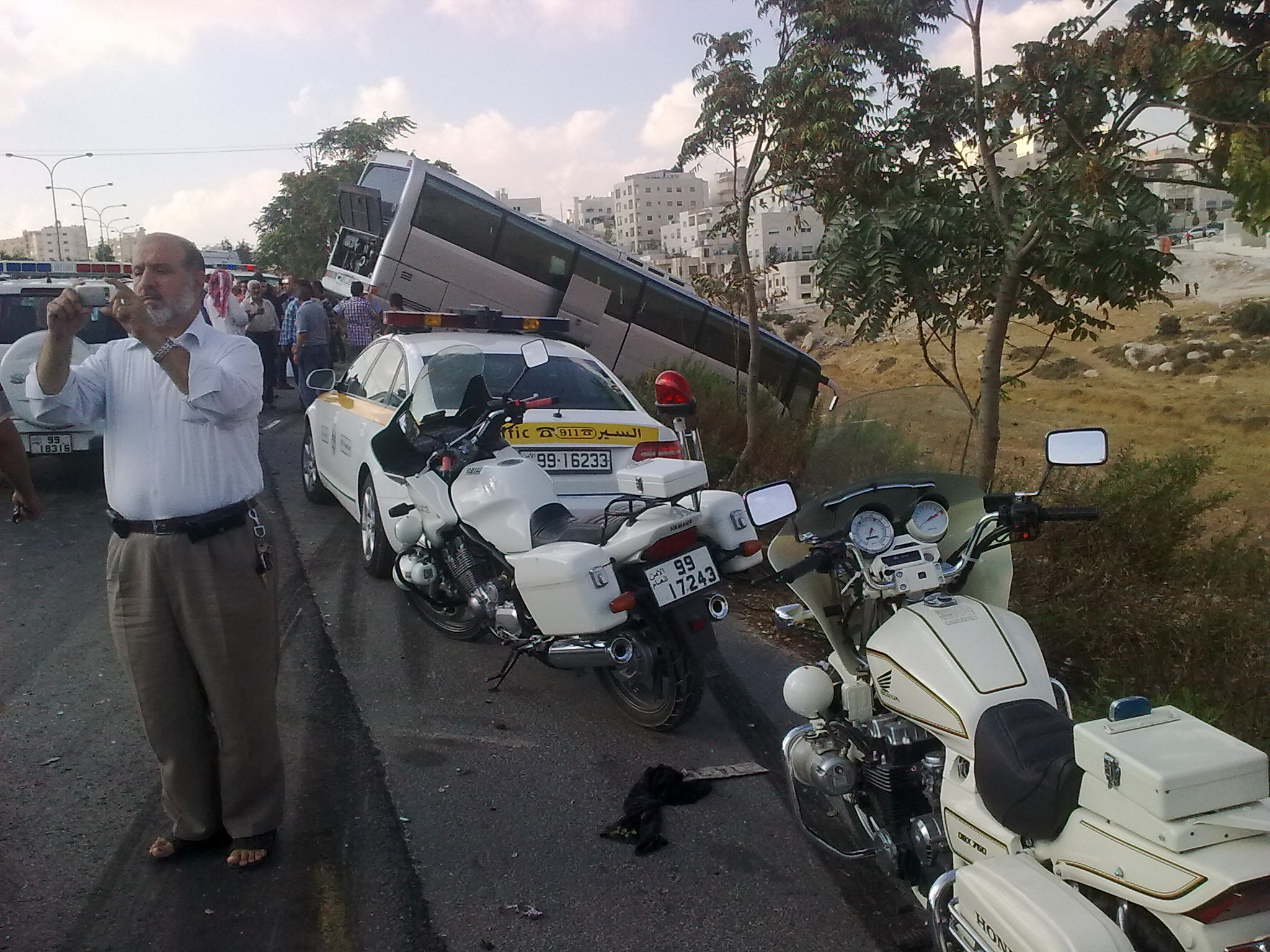 bus crashed at Alordun street